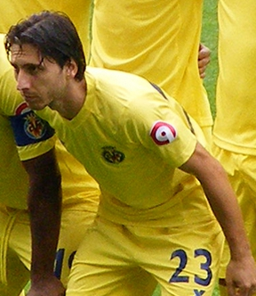 Villarreal starting XI posing before a peseason match at Wigan Athletic.